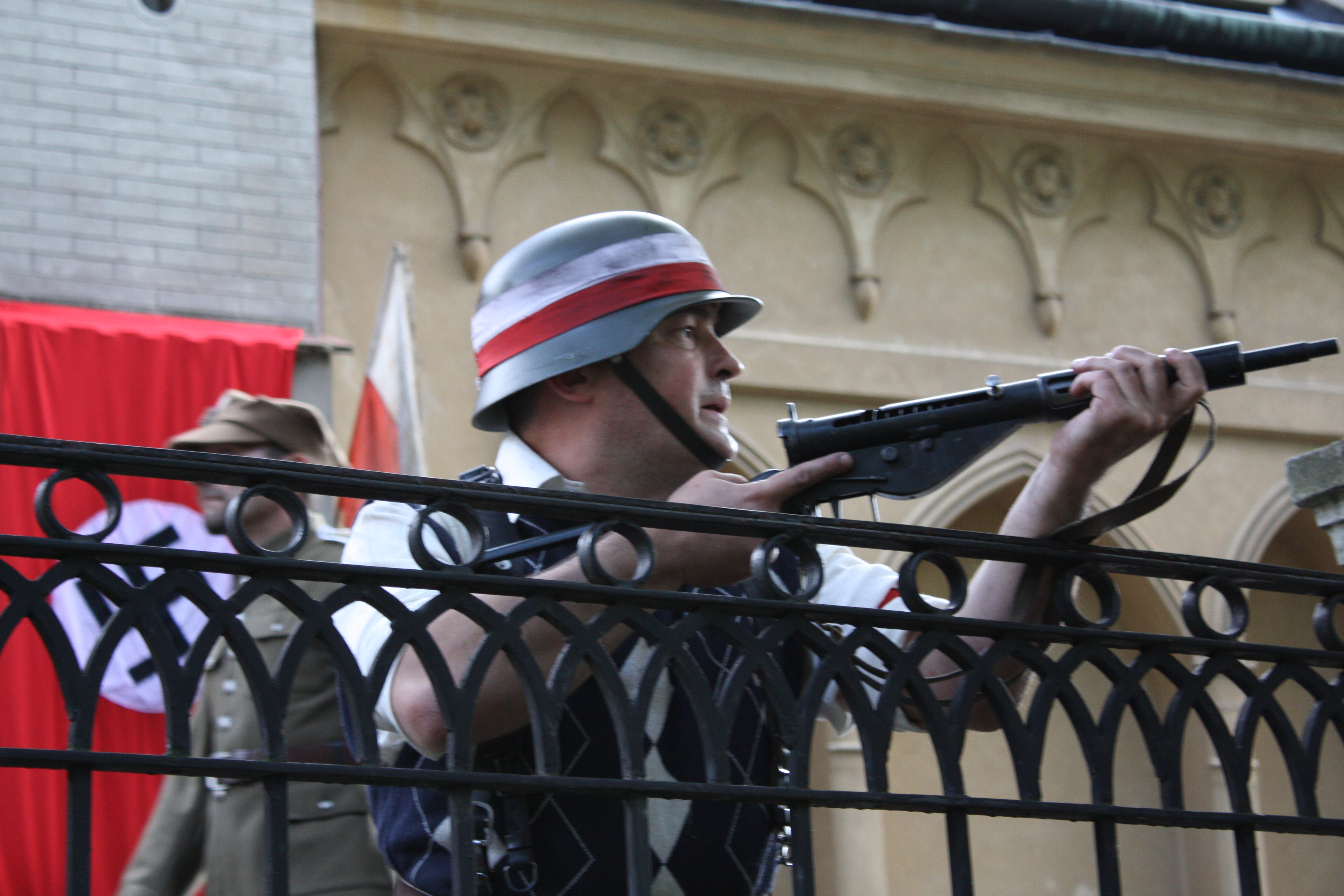 Warsaw Uprising reenactments - Mokotów'44